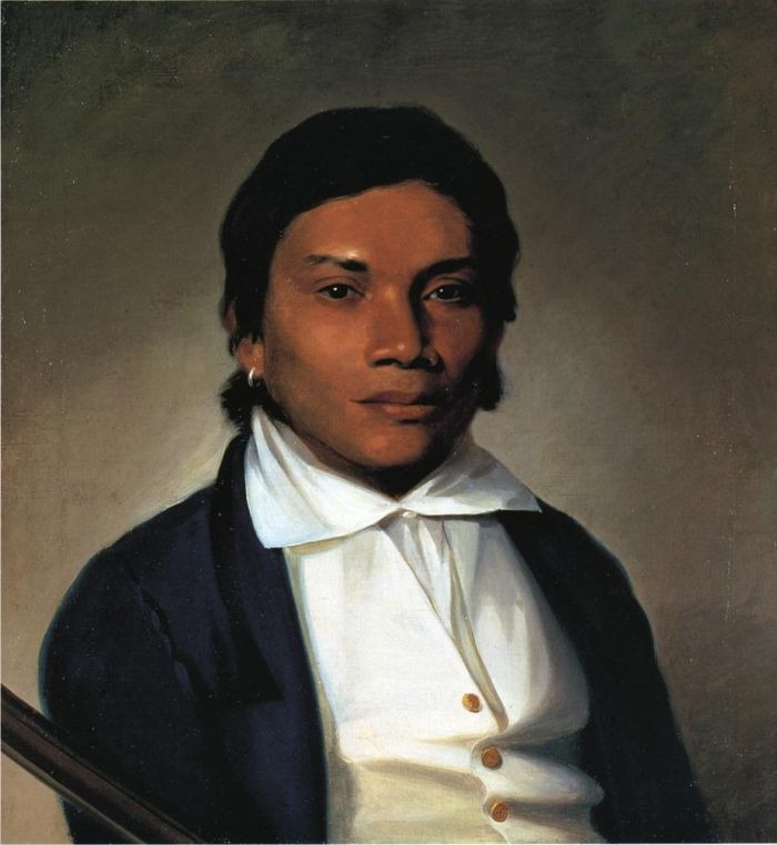 Philip Thomas Coke Tilyard painted this portrait of Granville while he visited the United States in the fall of 1824.